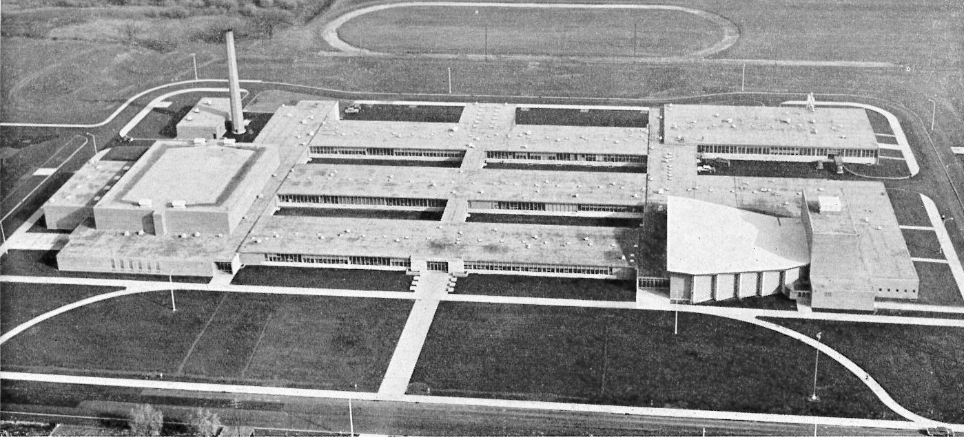 Original Janesville Senior High School in Janesville Daily Gazette Wednesday, November 16th, 1955